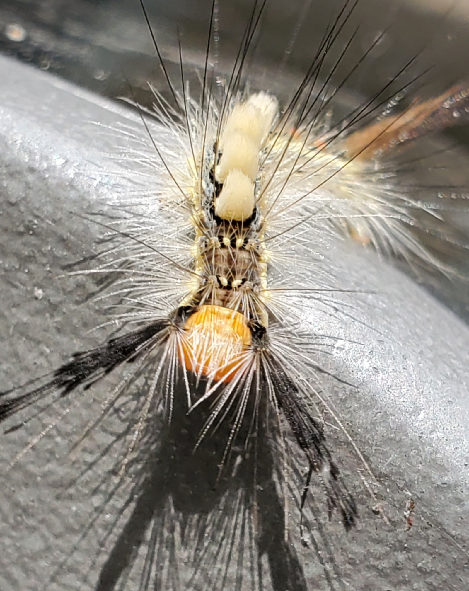 Orgyia leucostigma in Pupae stage